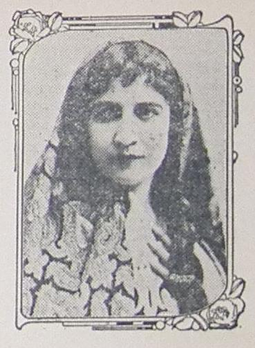 Picture of operatic soprano Myrna Sharlow, accompanying an account of her performance at Shimer College in Mount Carroll, Illinois on October 6, 1920. Published in the October 1920 issue of the shimercollege:Frances Shimer Record, on page 20 under the title "Miss Sharlow at Frances Shimer School".